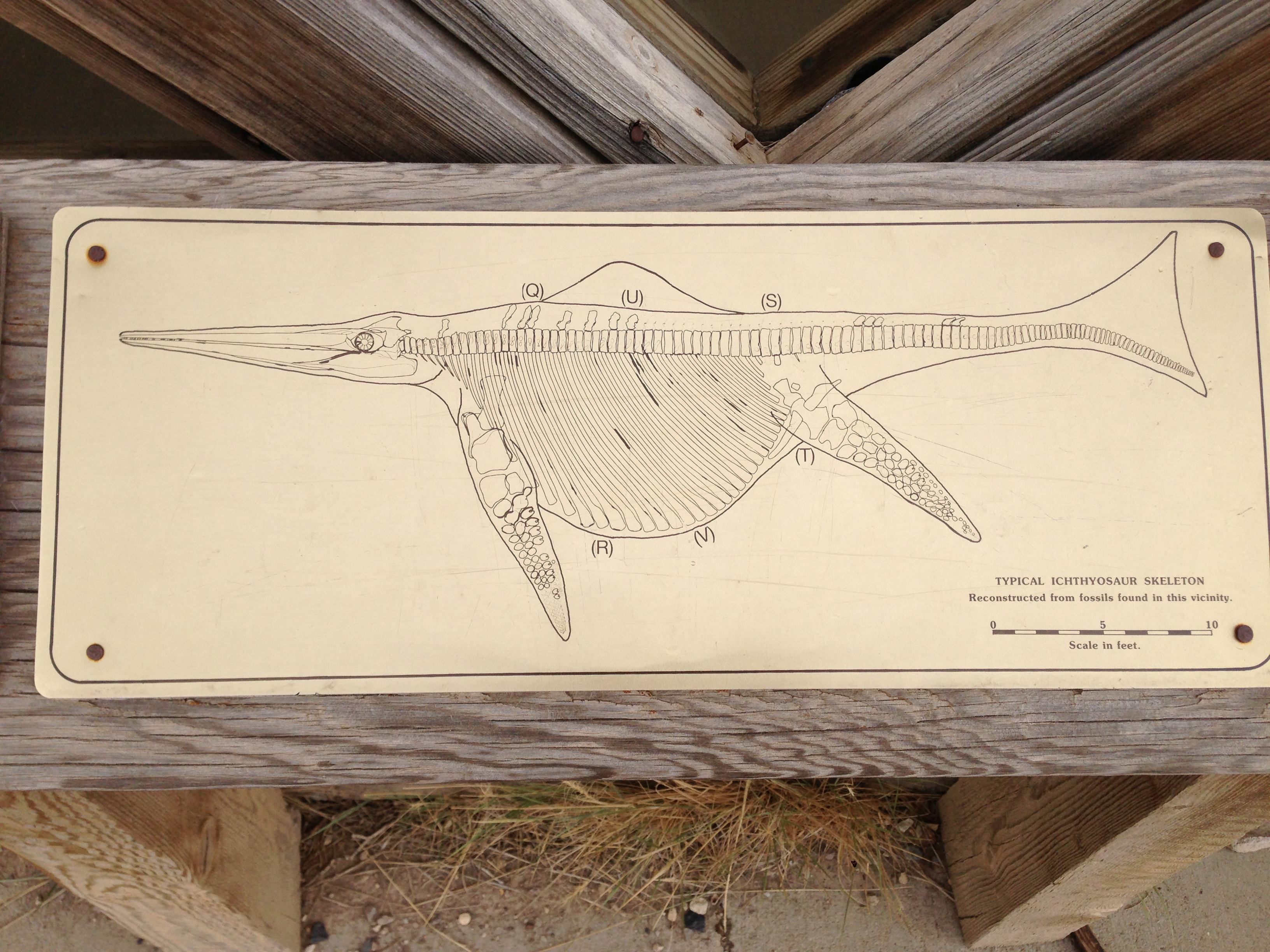 Sign displaying an ichthyosaur skeleton at the fossil shelter in Berlin–Ichthyosaur State Park, Nevada